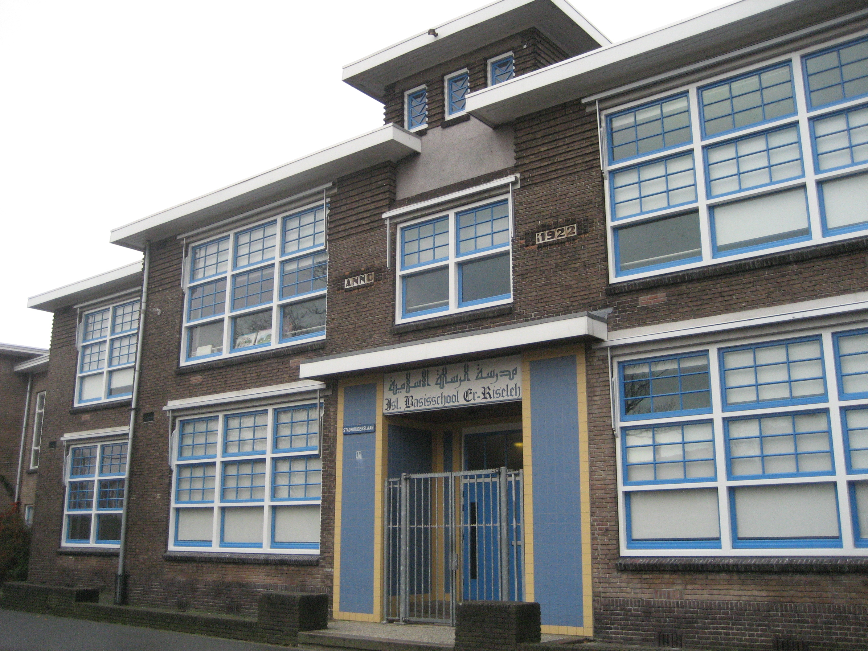 Primary school Er-Risèlèh (The Letter) in Leiden (The Netherlands). Before 1990: Stadhouderslaanschool. Anno 1922